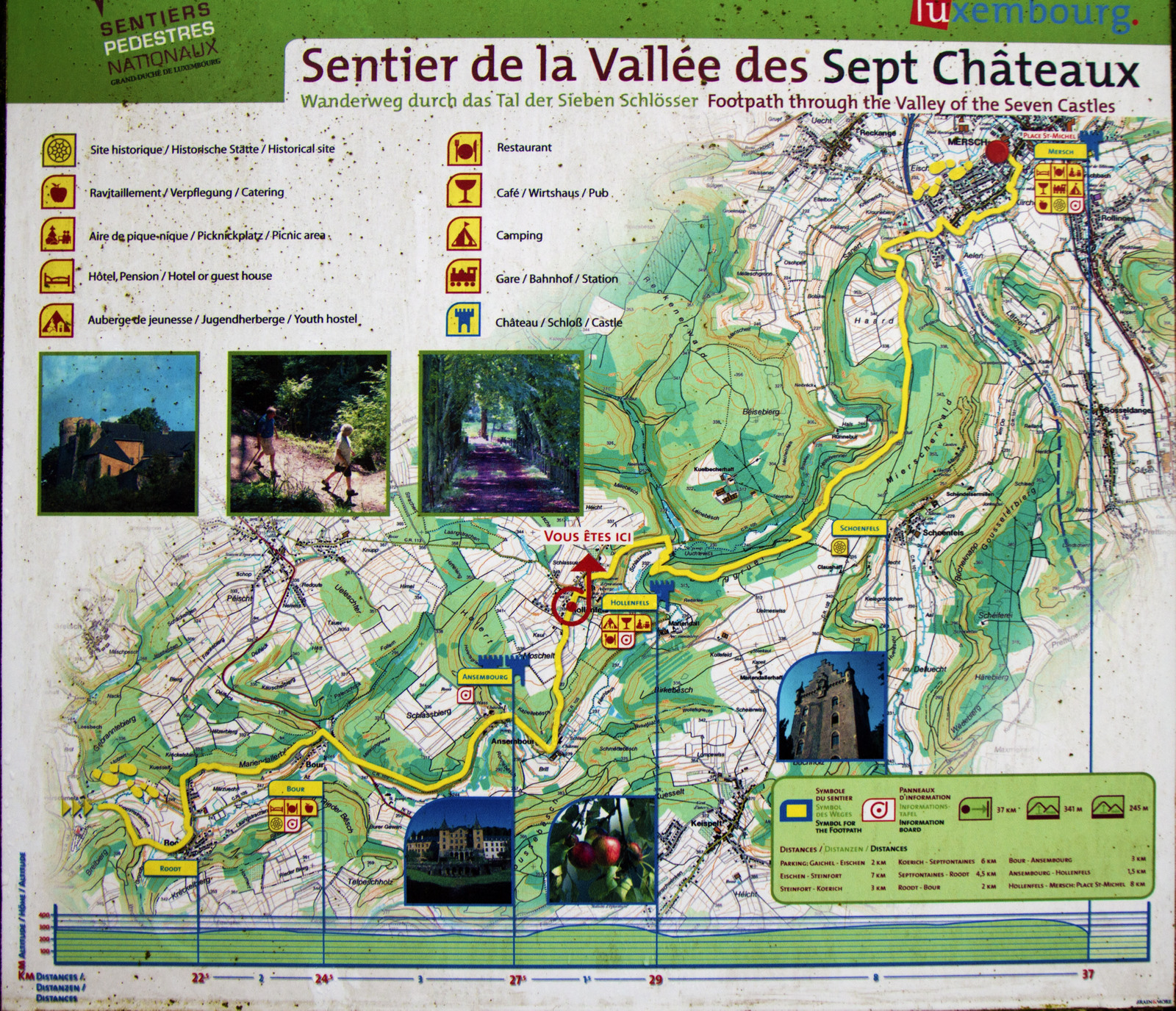 Map of the Valley of the Seven Castles, Luxembourg